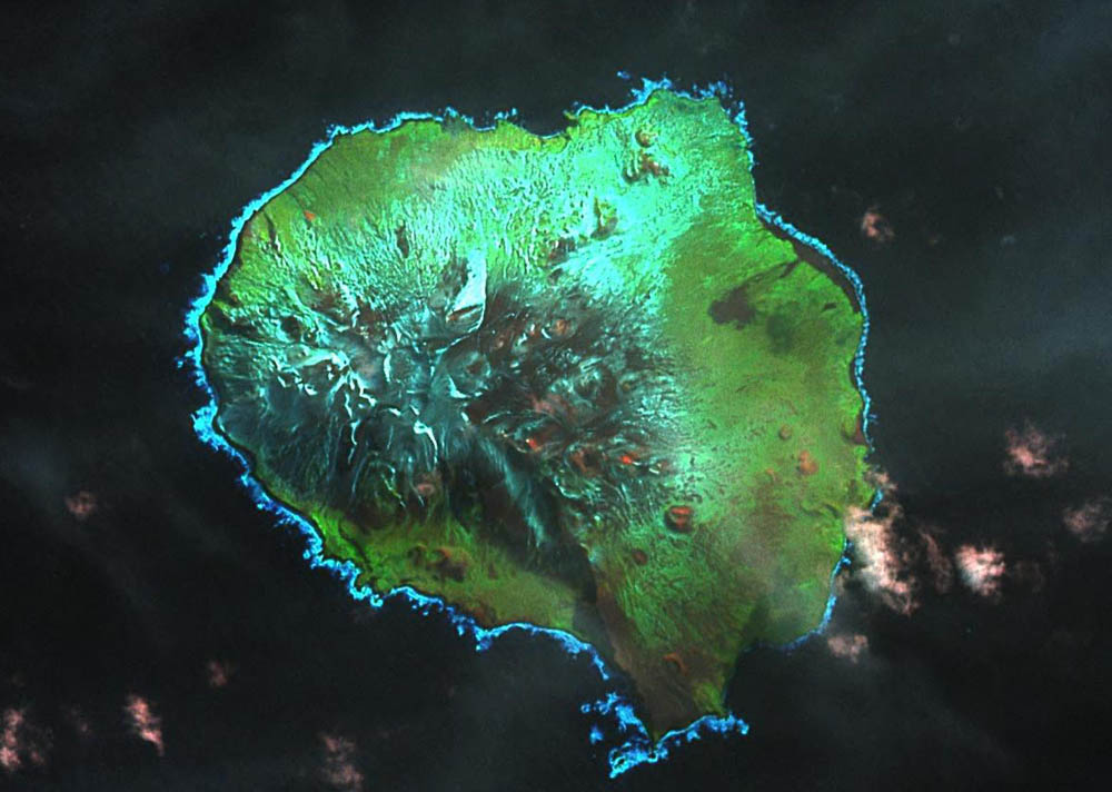 Landsat 7 image of Île aux Cochons, Crozet Islands, in the Southern Indian Ocean